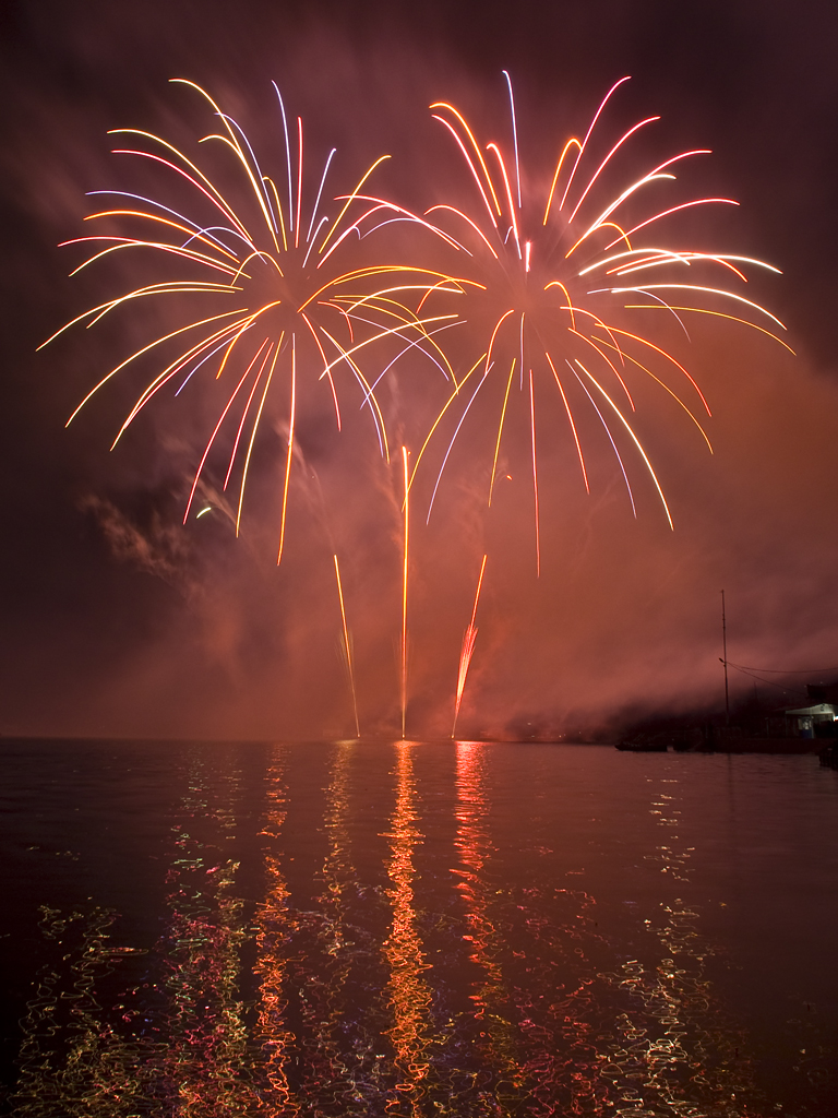 Ignis Brunensis 2010, Flash Barrandov SFX